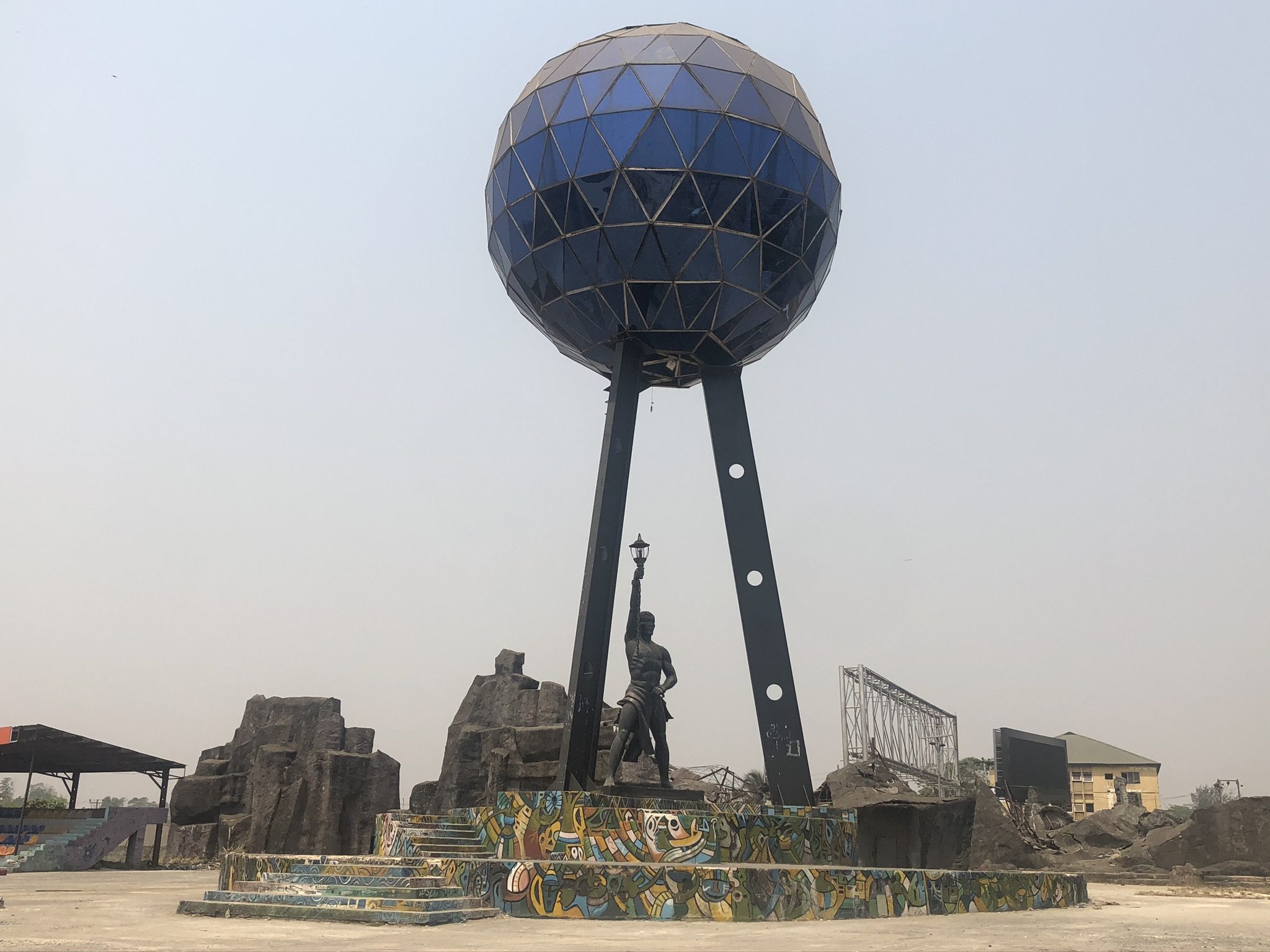 Statue Tourist attraction in Owerri Imo State